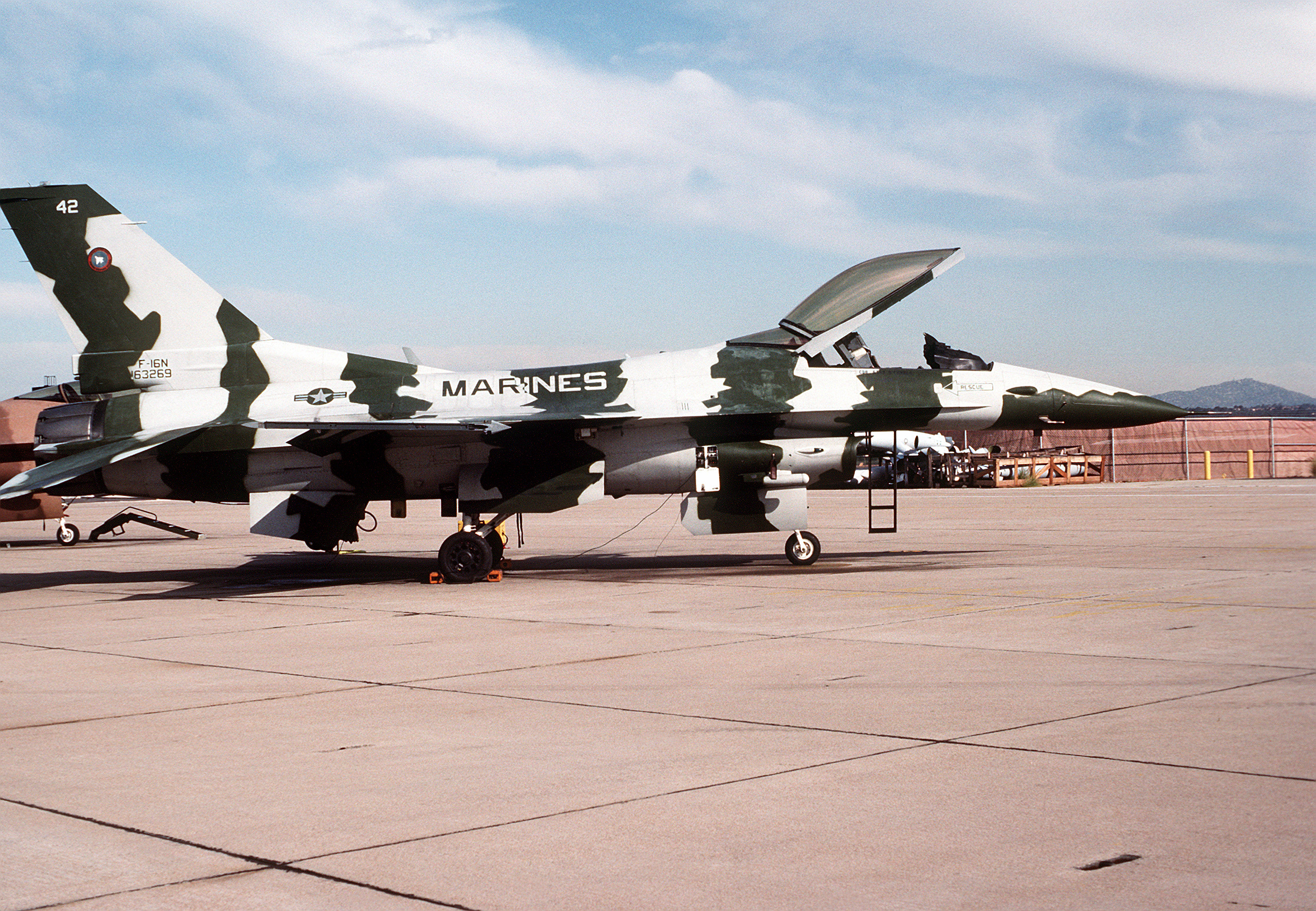 A U.S. Navy/Marine Corps General Dynamics F-16N Viper (BuNo 163269) of the Fighter Weapons School at Naval Air Station Miramar, California (USA), in 1991.